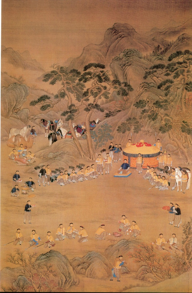 The Qianlong Emperor's in a hunting trip. The Emperor awaits sitting on a futton and guarded by his bodyguards, while they prepare the deer's for cooking.